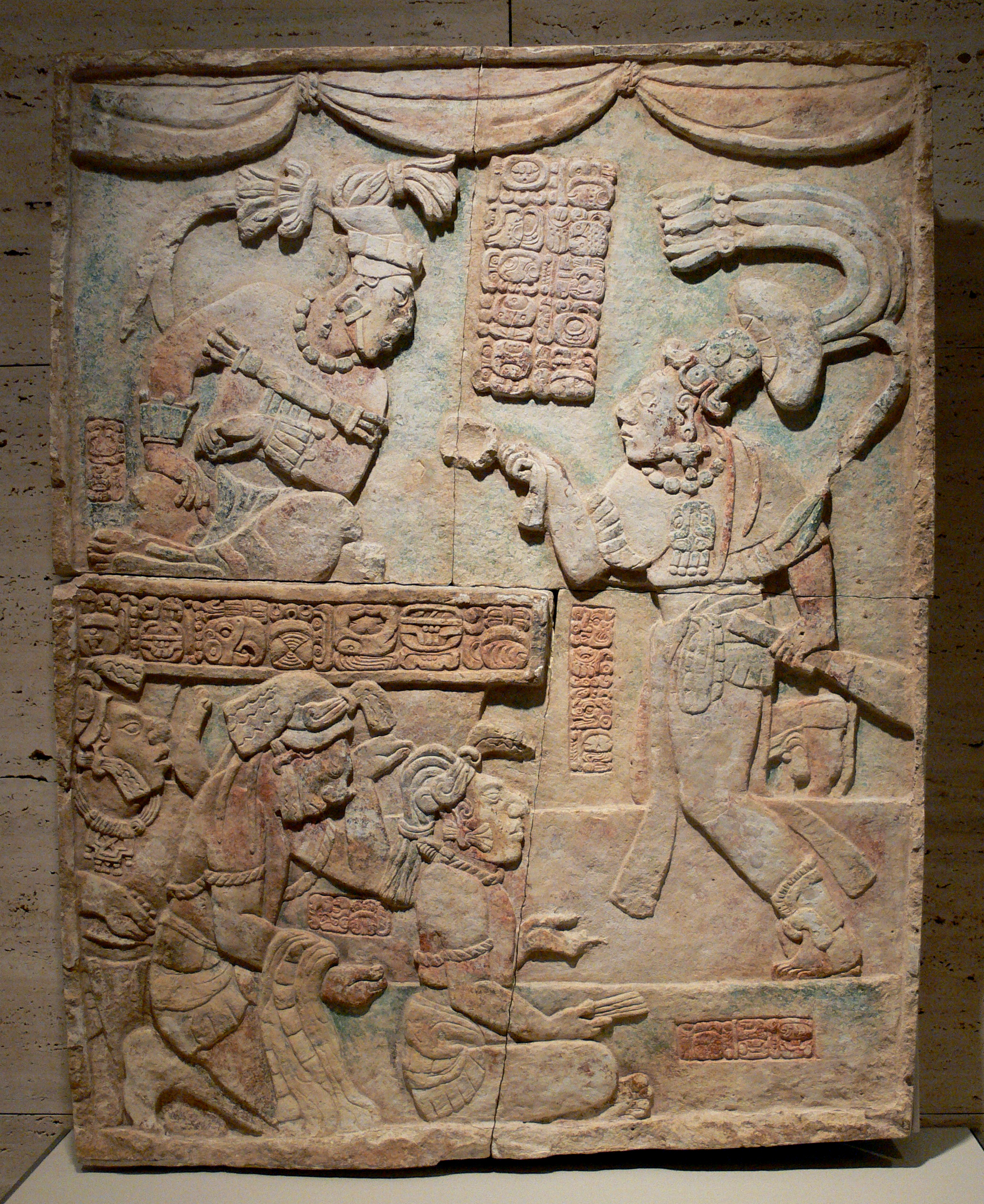 Presentation of Captives to a Maya Ruler; c. A.D. 785; Mexico, Usumacinta River Valley, Maya culture, Late Classic period (A.D. 600–900); Limestone with traces of paint 115.3 x 88.9 cm Kimbell Art Museum Fort Worth, Texas; AP 1971.07 see [1]